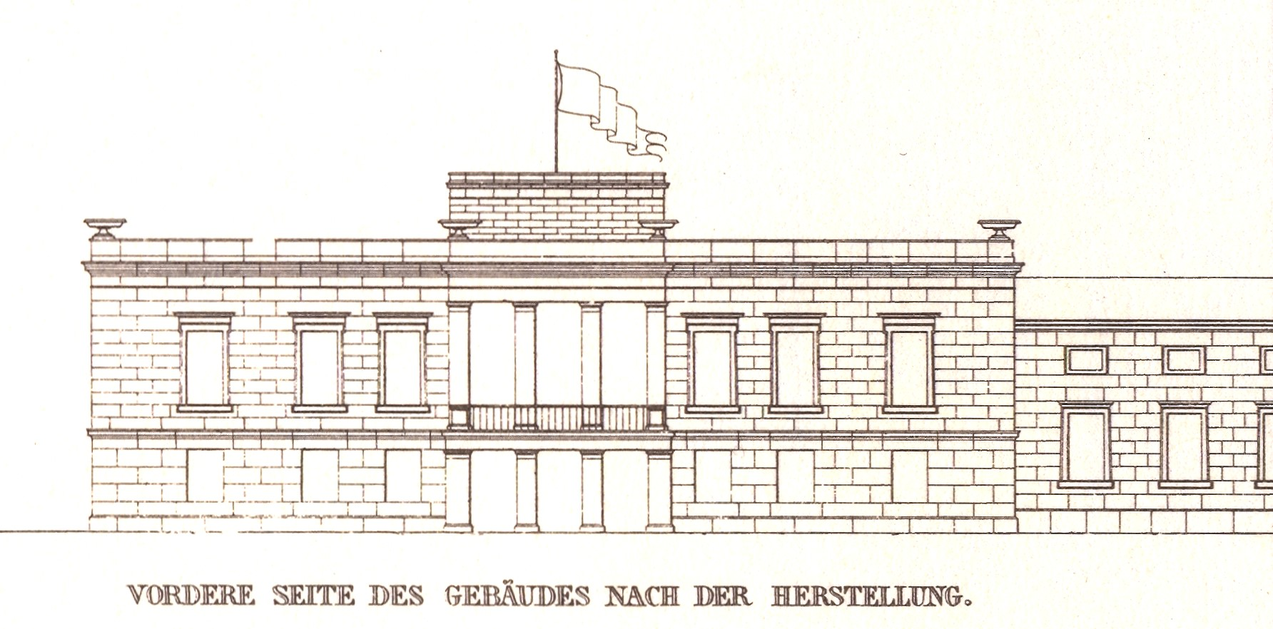 Berlin, Glienicke Palace, elevation main front